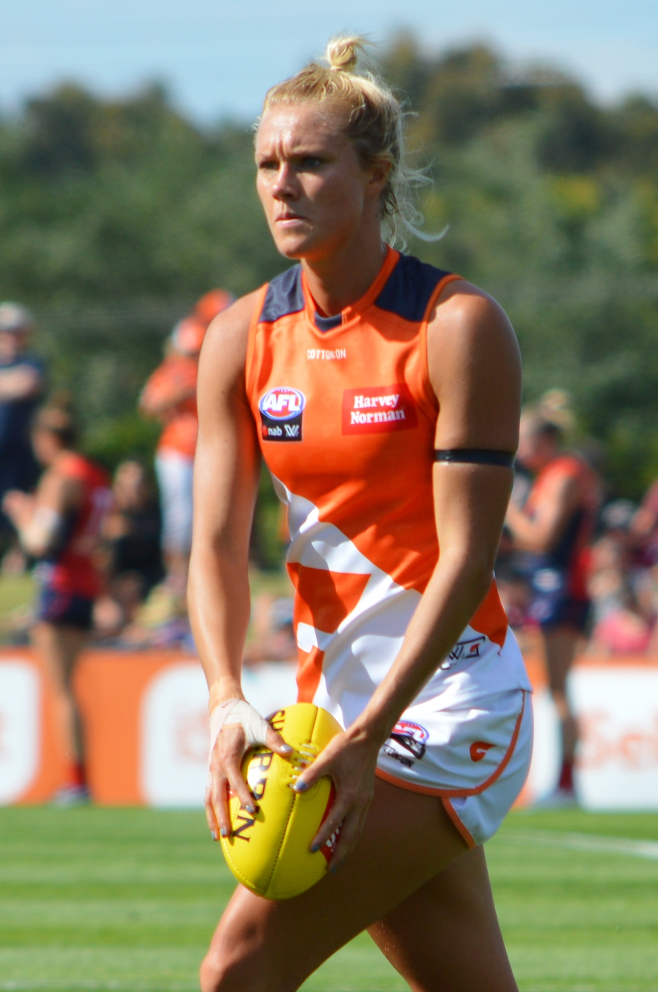 Elle Bennetts during the round 1, 2018 AFL Women's match between Melbourne and Greater Western Sydney.